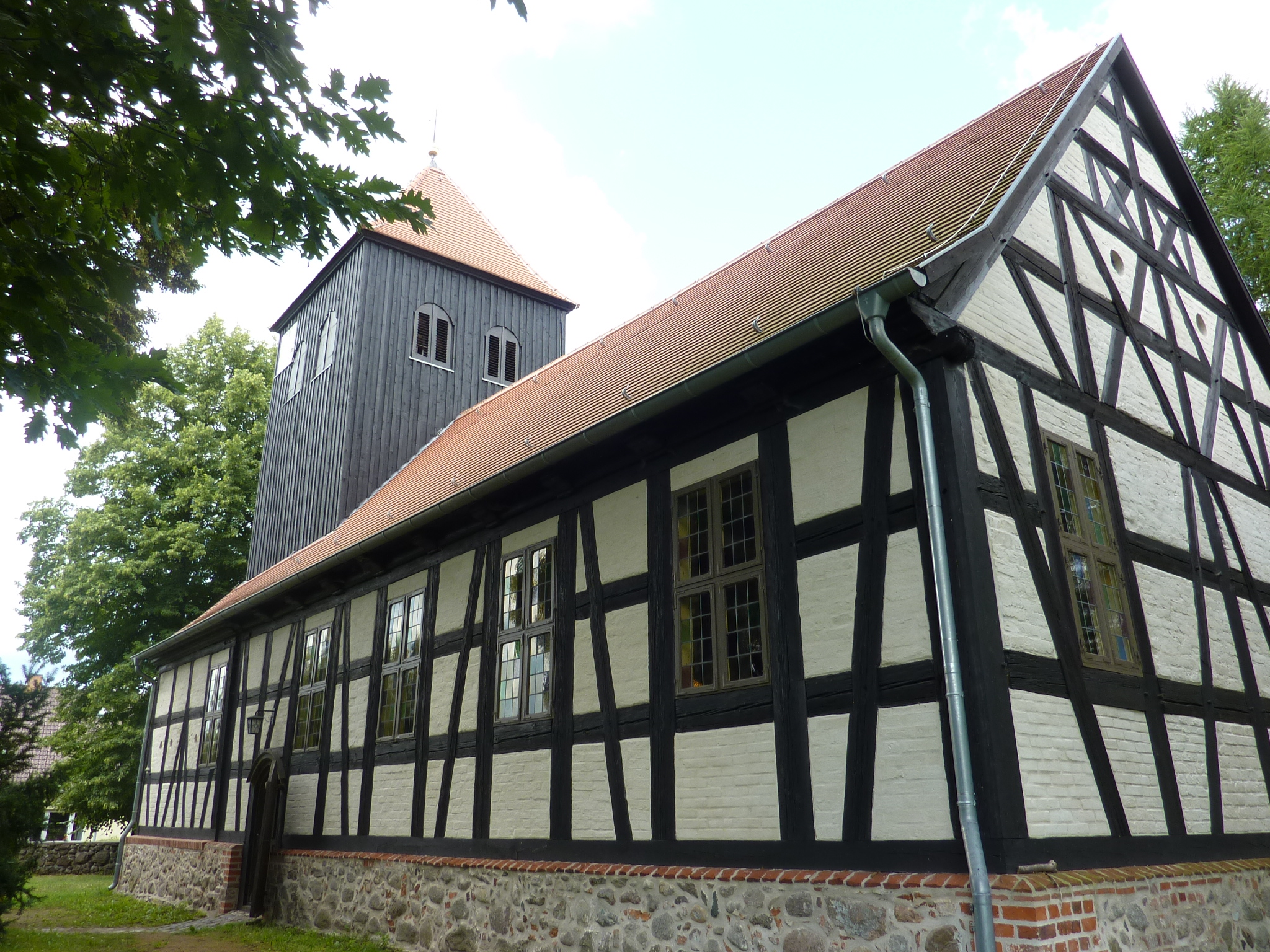 Dorfkirche (Bredereiche)